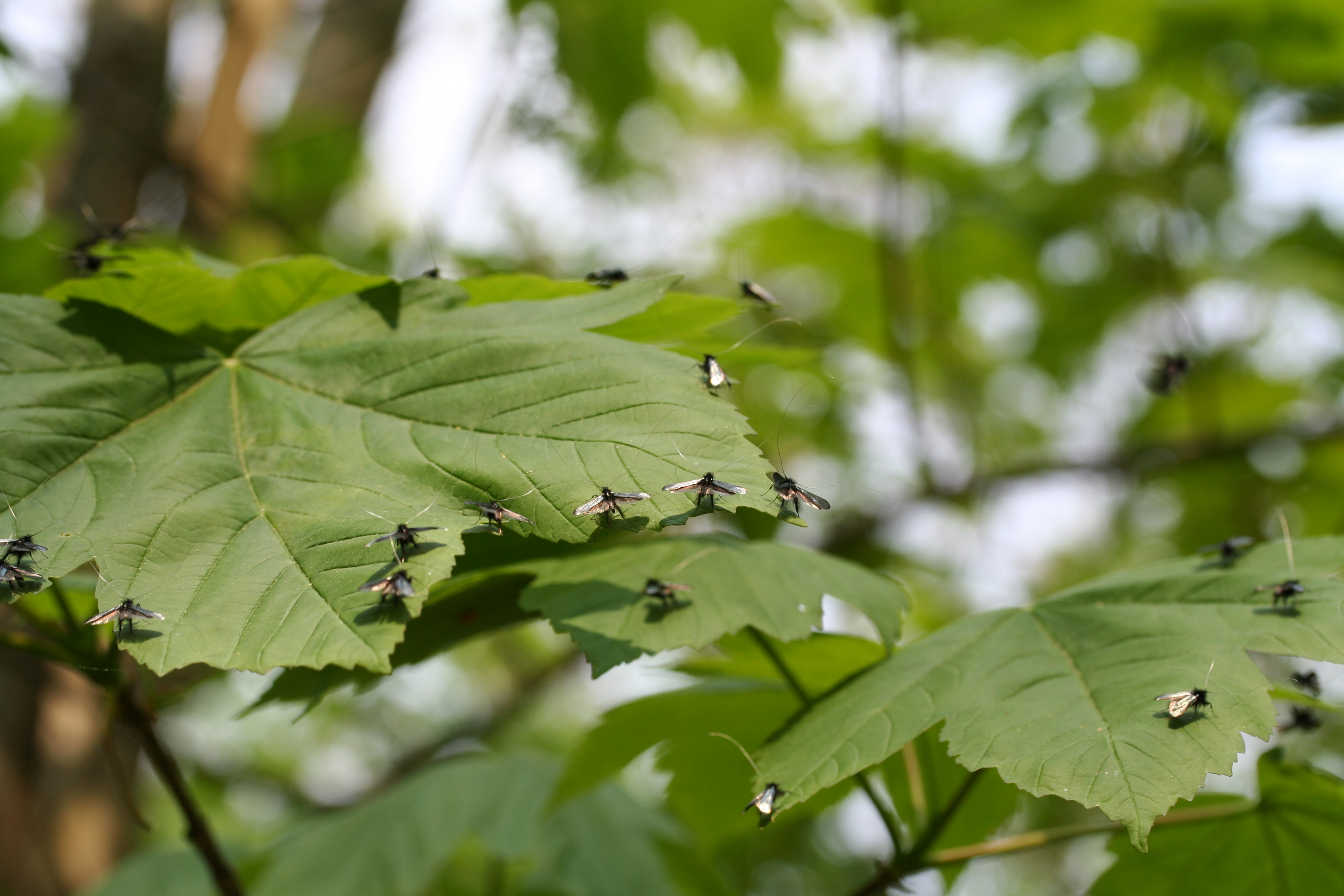 Adela reaumurella 7 may 2006 IJmuiden, the Netherlands